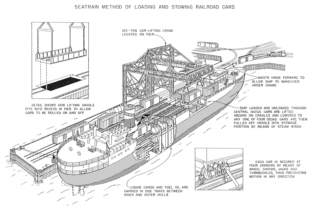 Method used by Seatrain Lines to load and transport railroad cars on a ship.